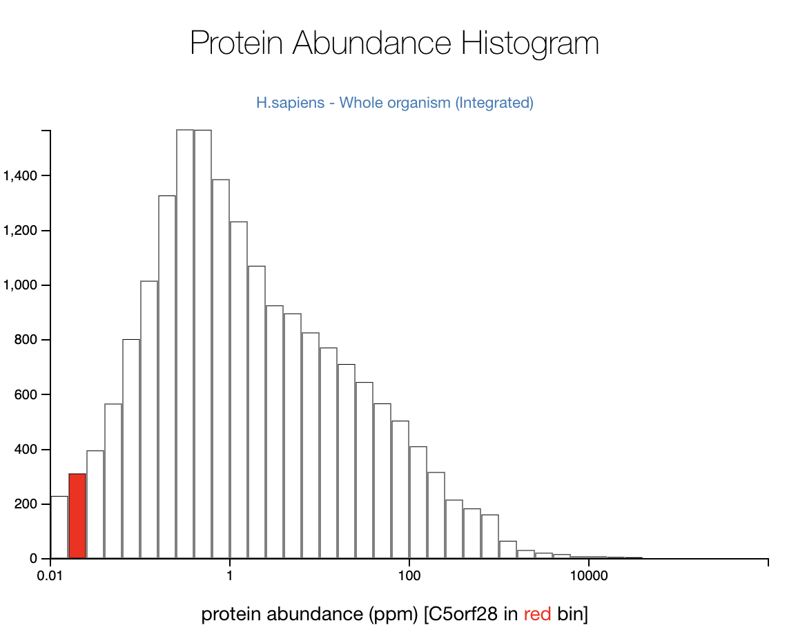 PAXdb data about TMEM267 protein abundance in the human body.